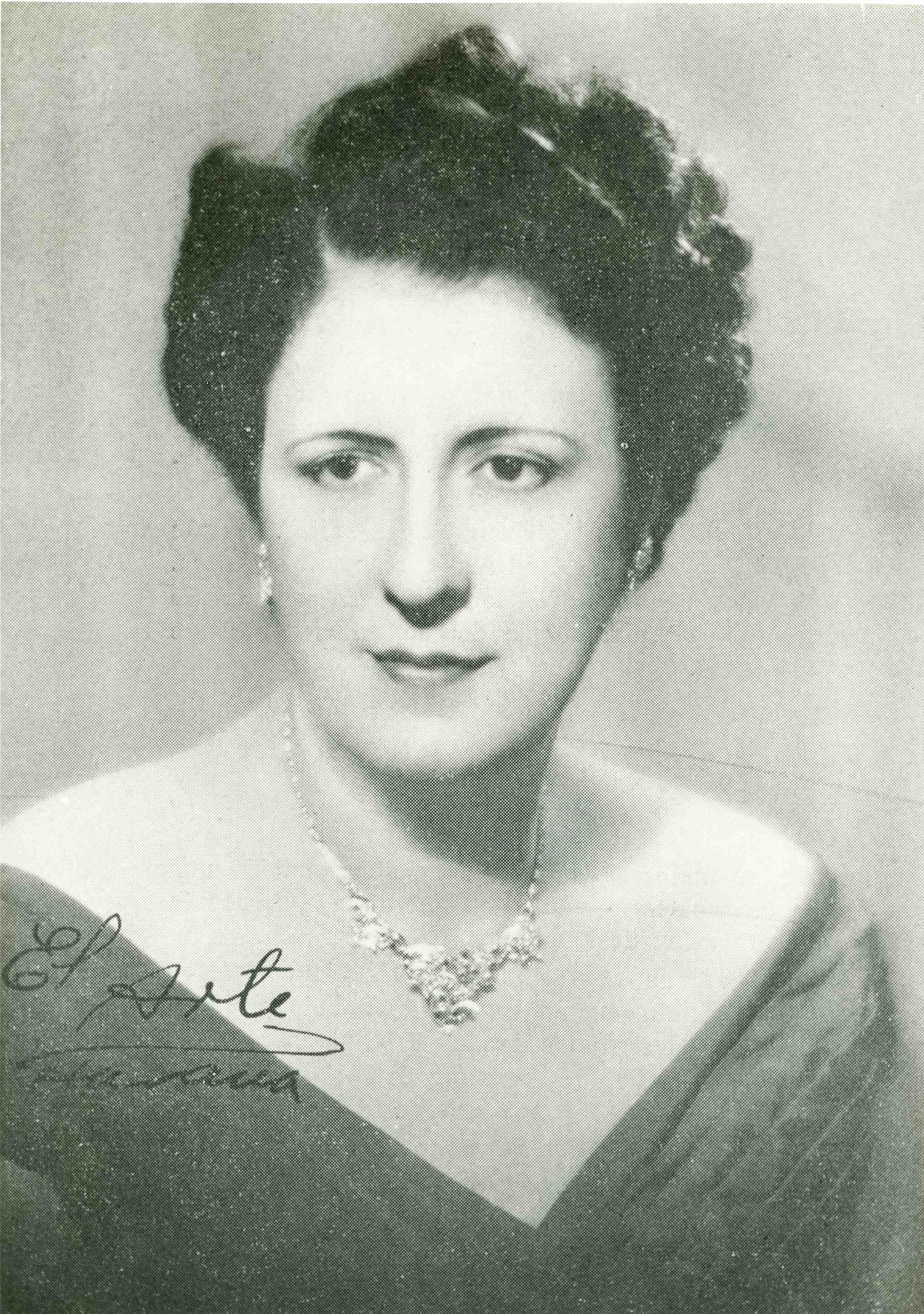 Promotional photograph of Cuban concert pianist Arminda Schutte, c.1940